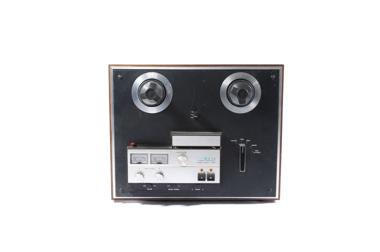 The KLH Model Forty-One is used for recording and playback of open reel magnetic tape. It has typical reel-to-reel functionality including Dolby system and stereo features.